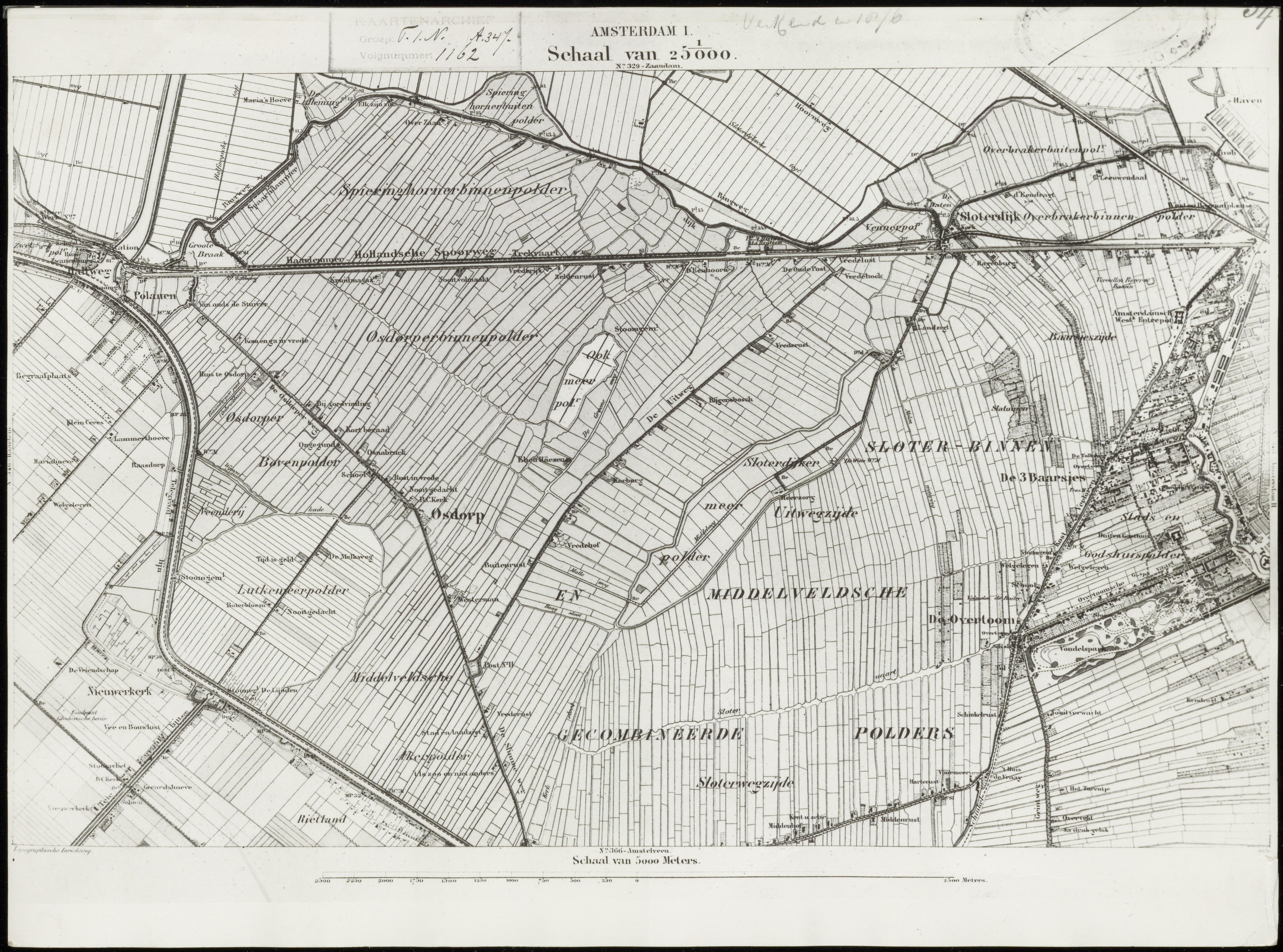 Kaartblad No.347, Amsterdam I. Verkend door de Militaire Verkenningen Verkend in 1876, dit jaar staat echter niet vermeld, maar werd ontleend aan vermeldingen op latere bladen. Ook het uitgavejaar staat niet vermeld. Druk: Topographische Inrichting.